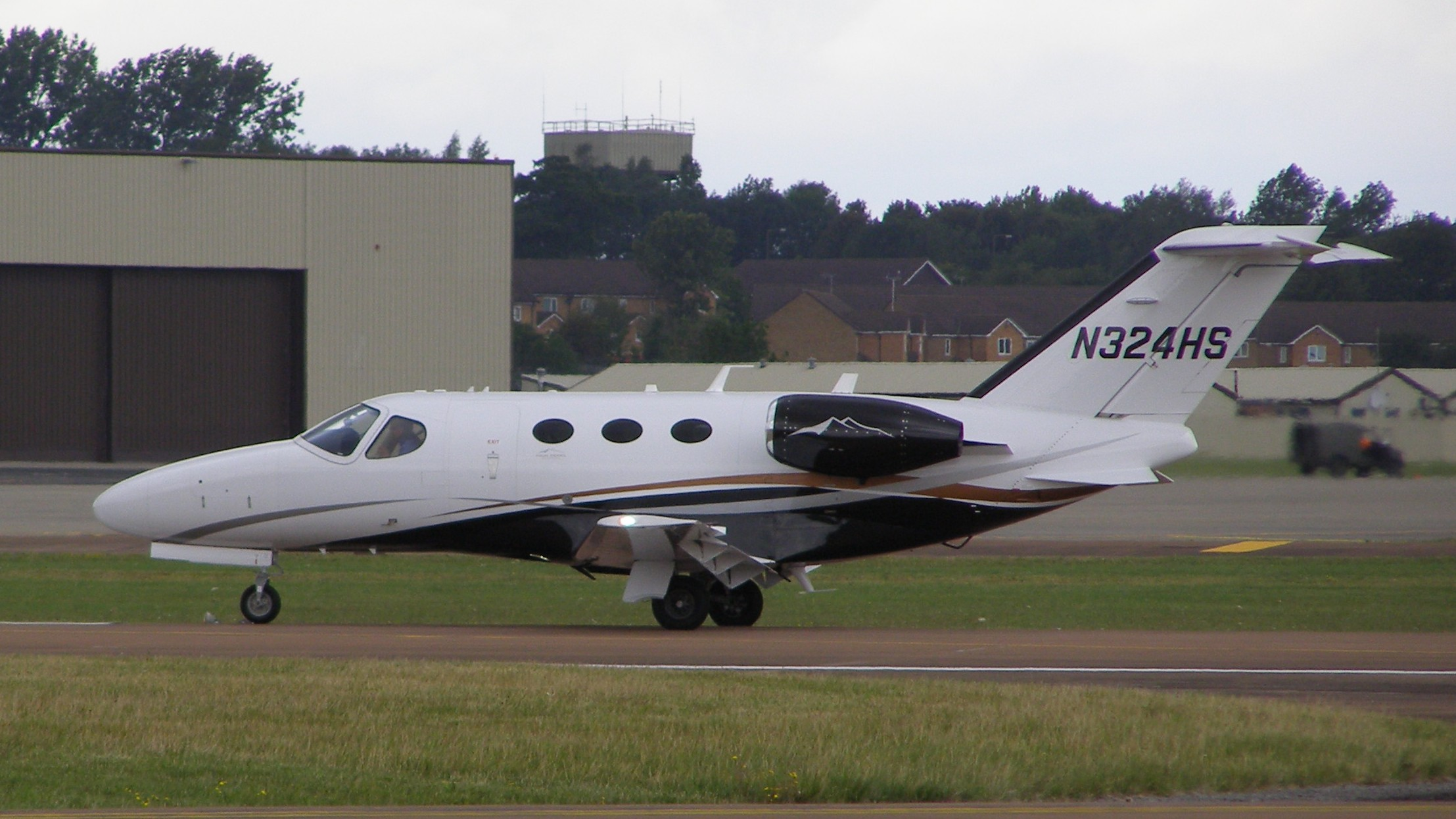 "N324HS" a Cessna Citation Mustang awaiting to depart from Royal Air Force Fairford, England at the Royal International Air Tattoo 2011